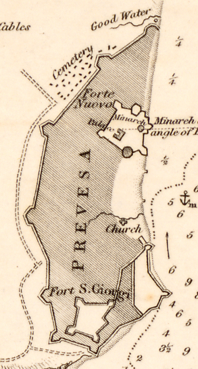 Map of the town of Preveza surrounded by the moat built during the Ali pasha period (1806-1820). The church of St. John the Chrysostom is noted in the centre of the map, next to the little stream running across Preveza. The map was drawn by Lieutenant W. J. Cooling of H.M.S. Mastiff (1813), in 1830. Lithography by J. & C. Walker, London, 1834. Nikos D. Karabelas map collection, Actia Nicopolis Foundation, Preveza, Greece. Detail of an inset of a larger map of the Amvrakikos Gulf.